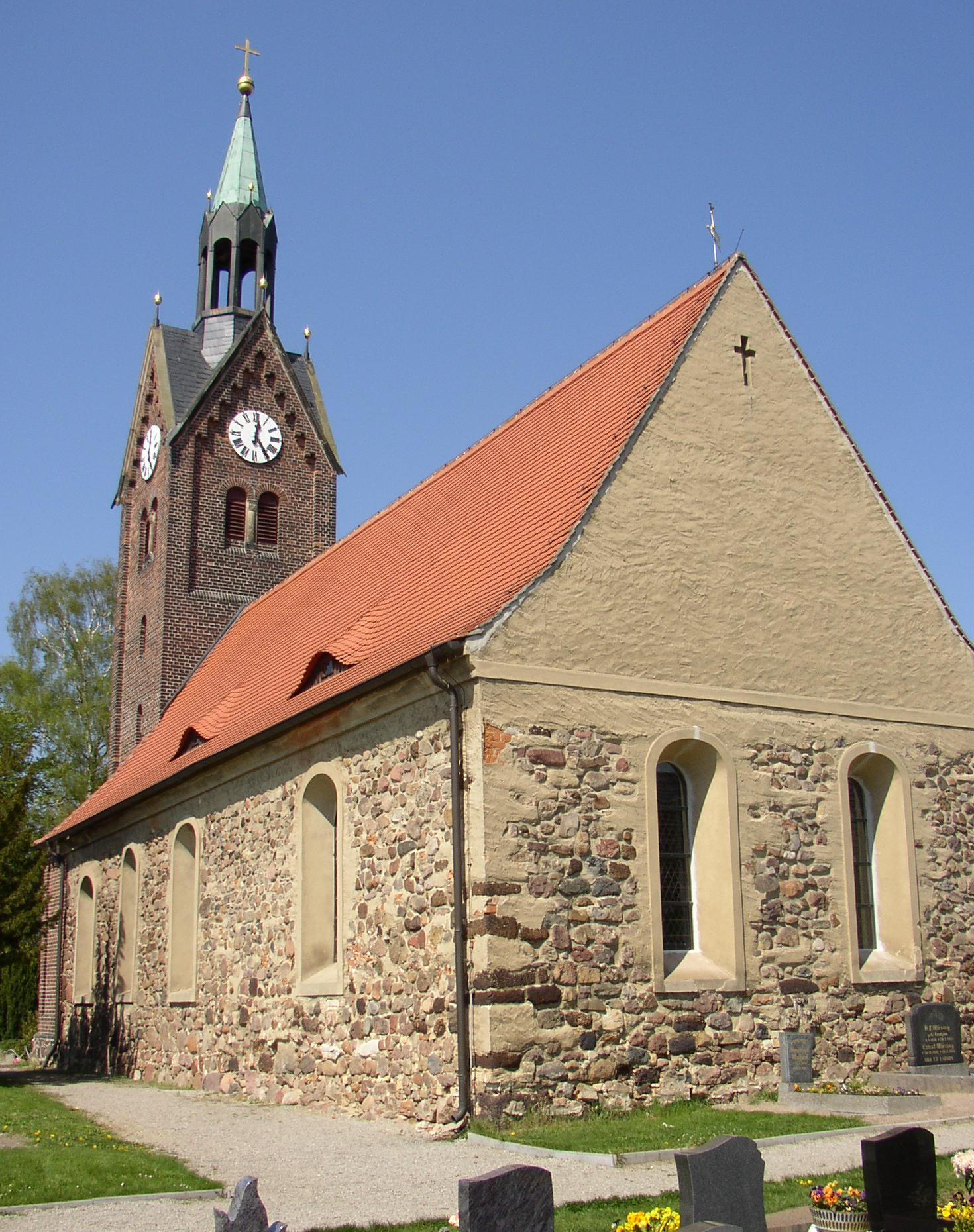 Church in Söllichau in Saxony-Anhalt, Germany